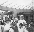 in this picture is the creator of the Famous Nicaraguan dish "Vigoron"